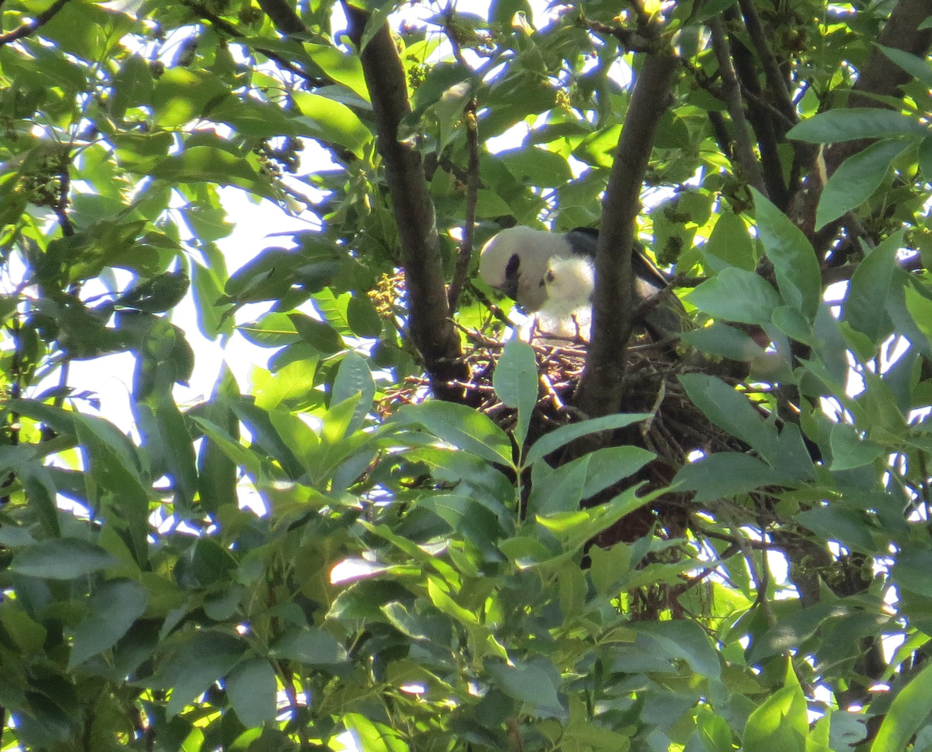 Near our house - 2019